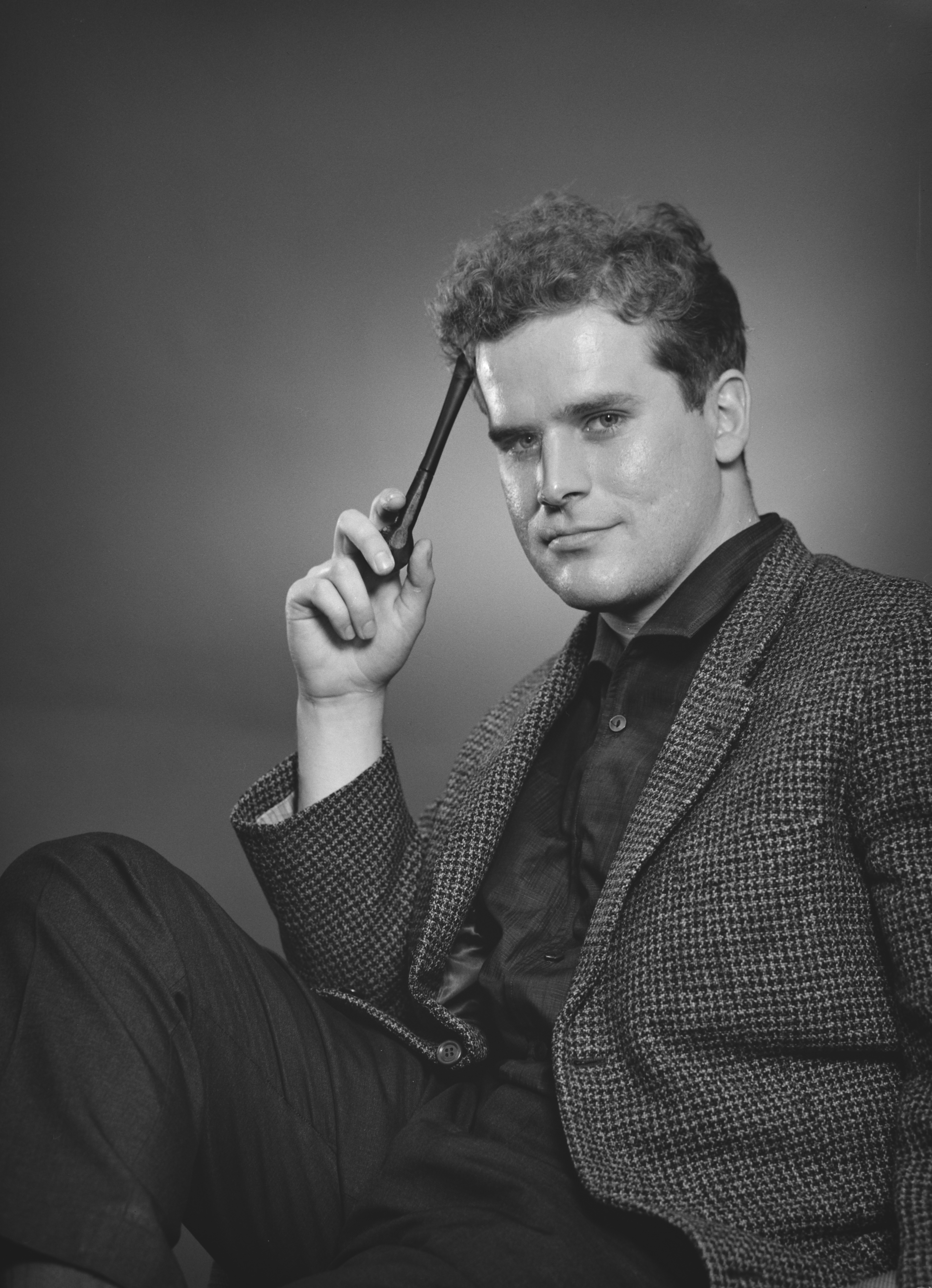 Photograph of the Finnish writer Anders Cleve (1937–1985).